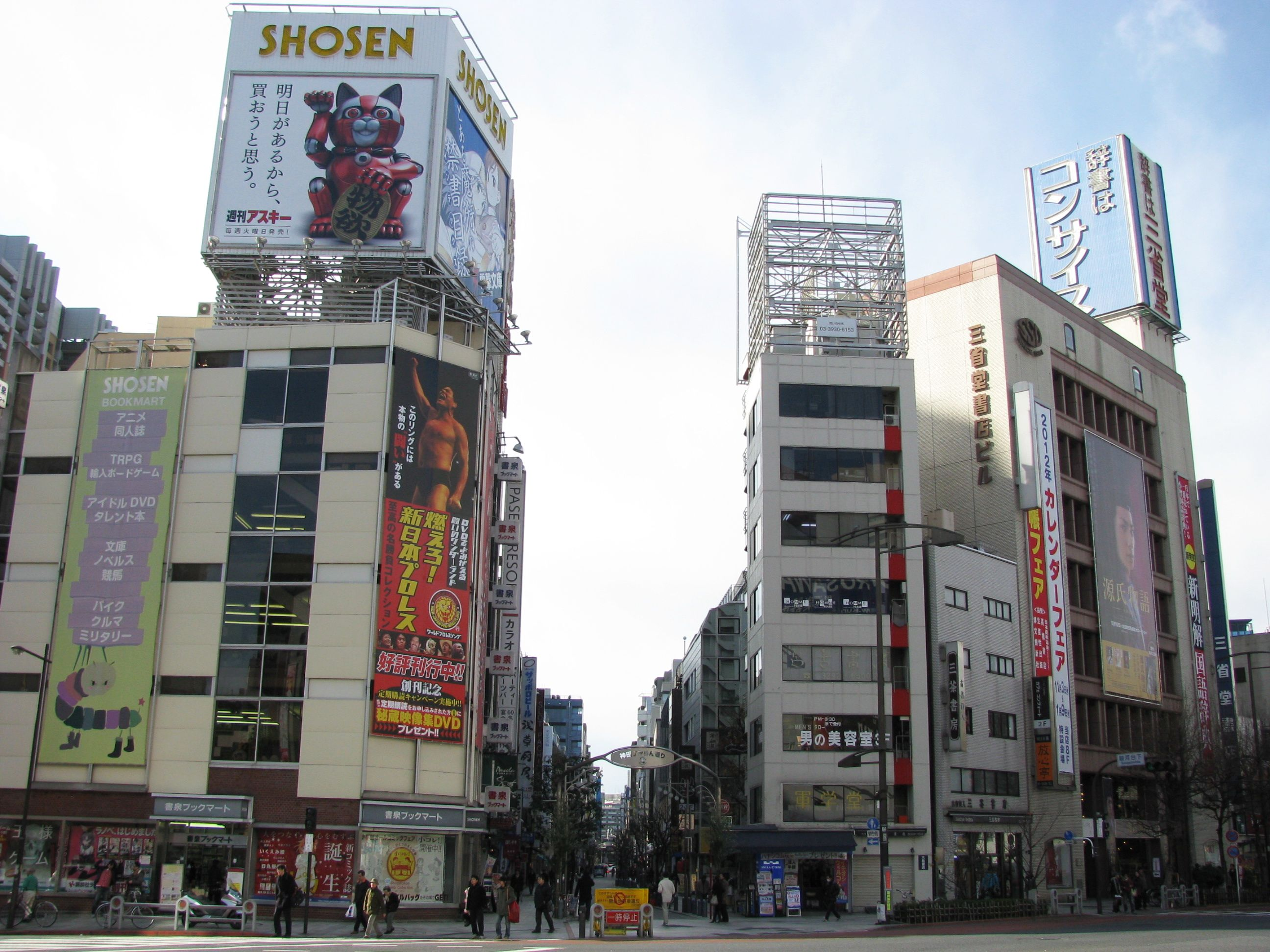 The Kanda-jinbōchō in Chiyoda, Tokyo, Japan.